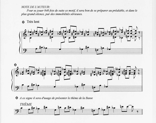 "In order to play the theme 840 times in succession, it would be advisable to prepare oneself beforehand, and in the deepest silence, by serious immobilities."